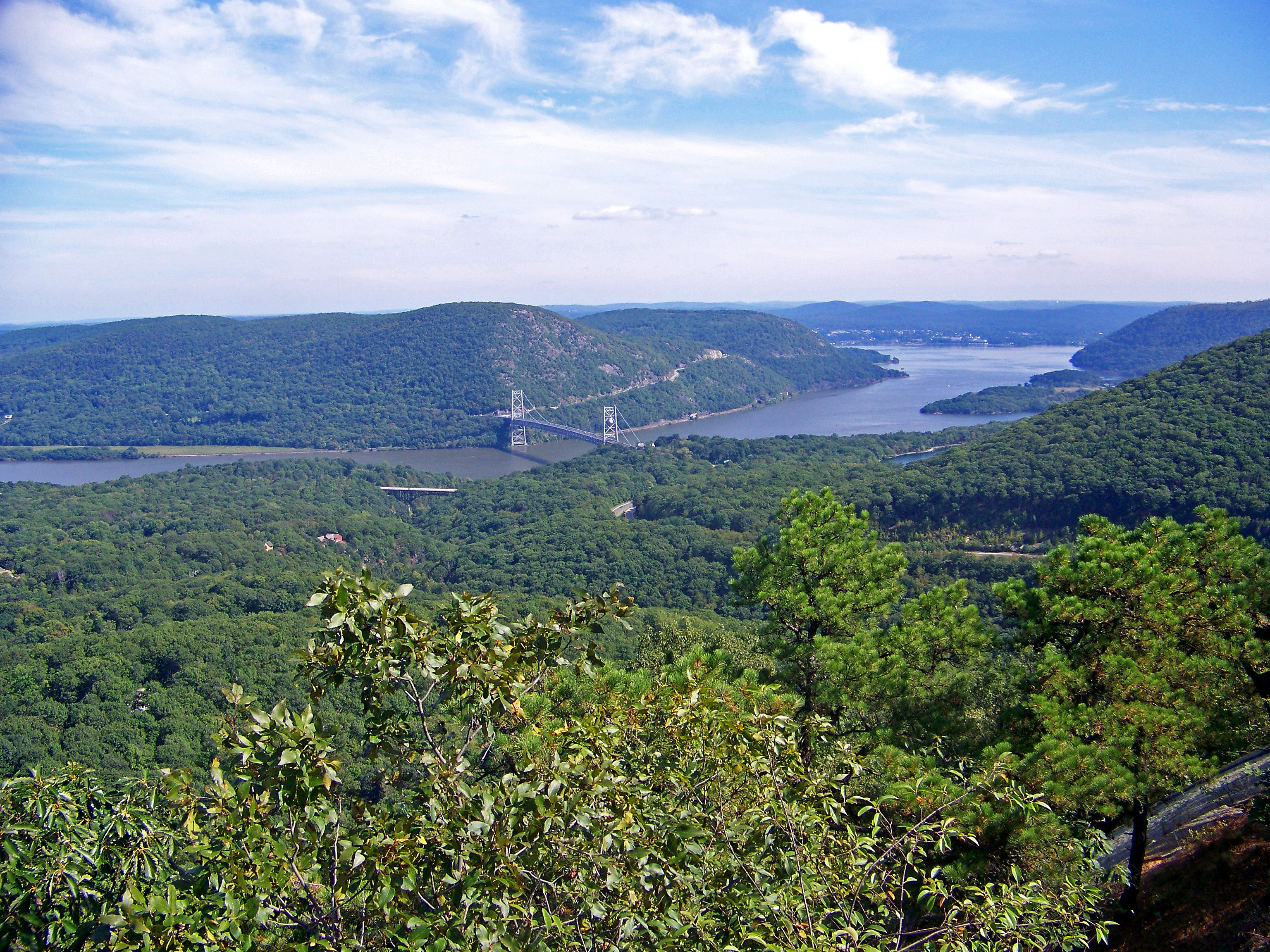 The view east from the Torne encompassing the Bear Mountain Bridge, Anthony's Nose on the far side, Peekskill in the distance, portions of Iona island and Dunderberg mountain on the right, the 9W overpass to the left, and the Palisades Parkway at the center to bottom right.